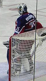 Cropping of taken by user Uncleweed